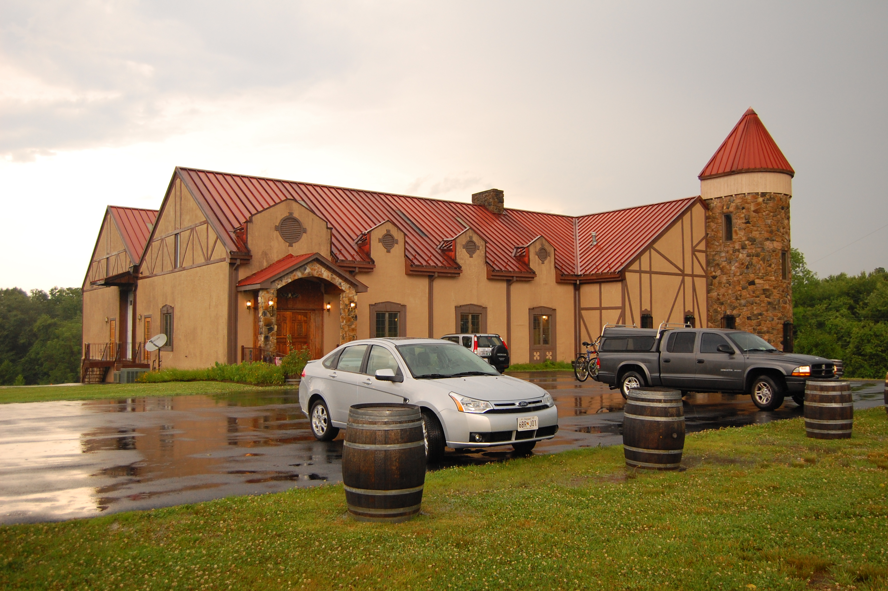 Horton Winery - Gordonsville, VA Photo by Amy C Evans, SFA oral historian June 2008